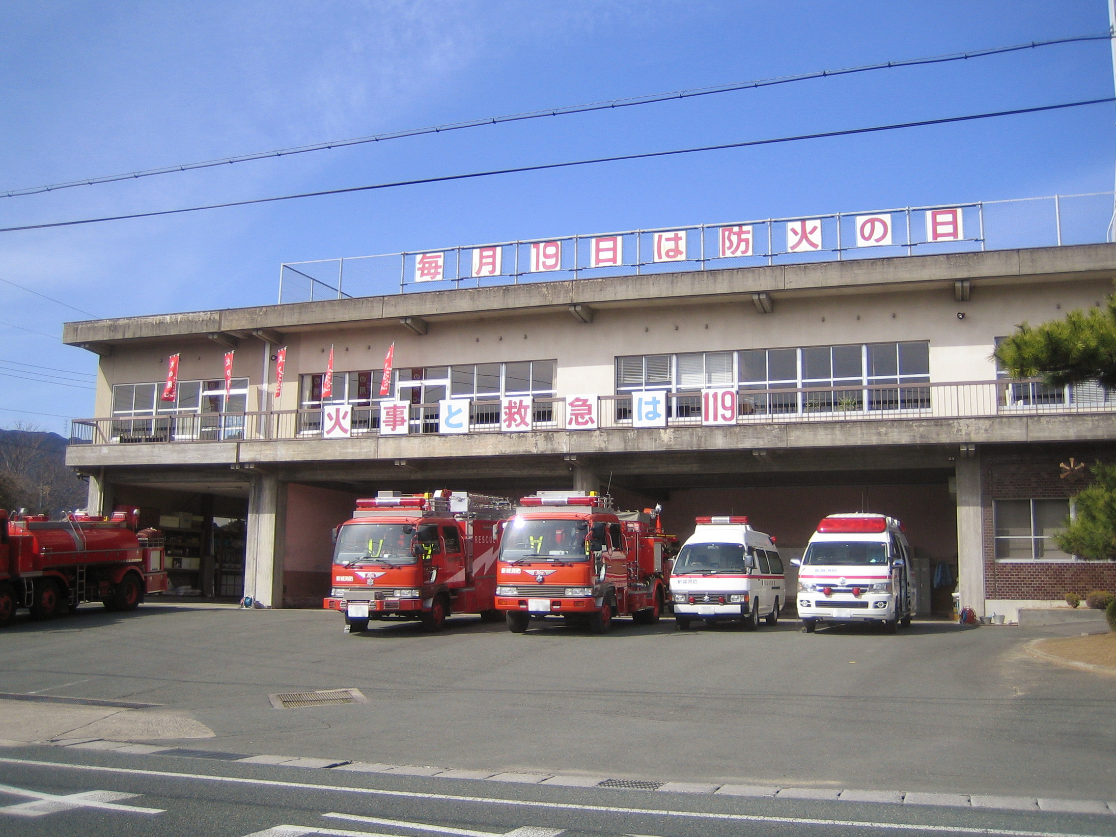 新城市消防本部。愛知県新城市 Shinshiro City Fire Department (新城市消防本部), located in Shinshiro, Aichi, Japan